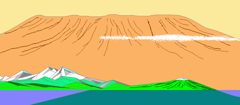 Schematic view of Olympus Mons, Mars Comparison of Olympus Mons with the highest mountains on Earth. In front of the central part of Olympus Mons are shown the largest terrestrial volcanic mountain, the island of Hawaii in the Pacific with its undersea pedestal, and the Mount Everest massif of the Himalayas. It should be noted that the vertical scale is twice as large as the horizontal. similar images: Valley Marineris Vergleich.gif